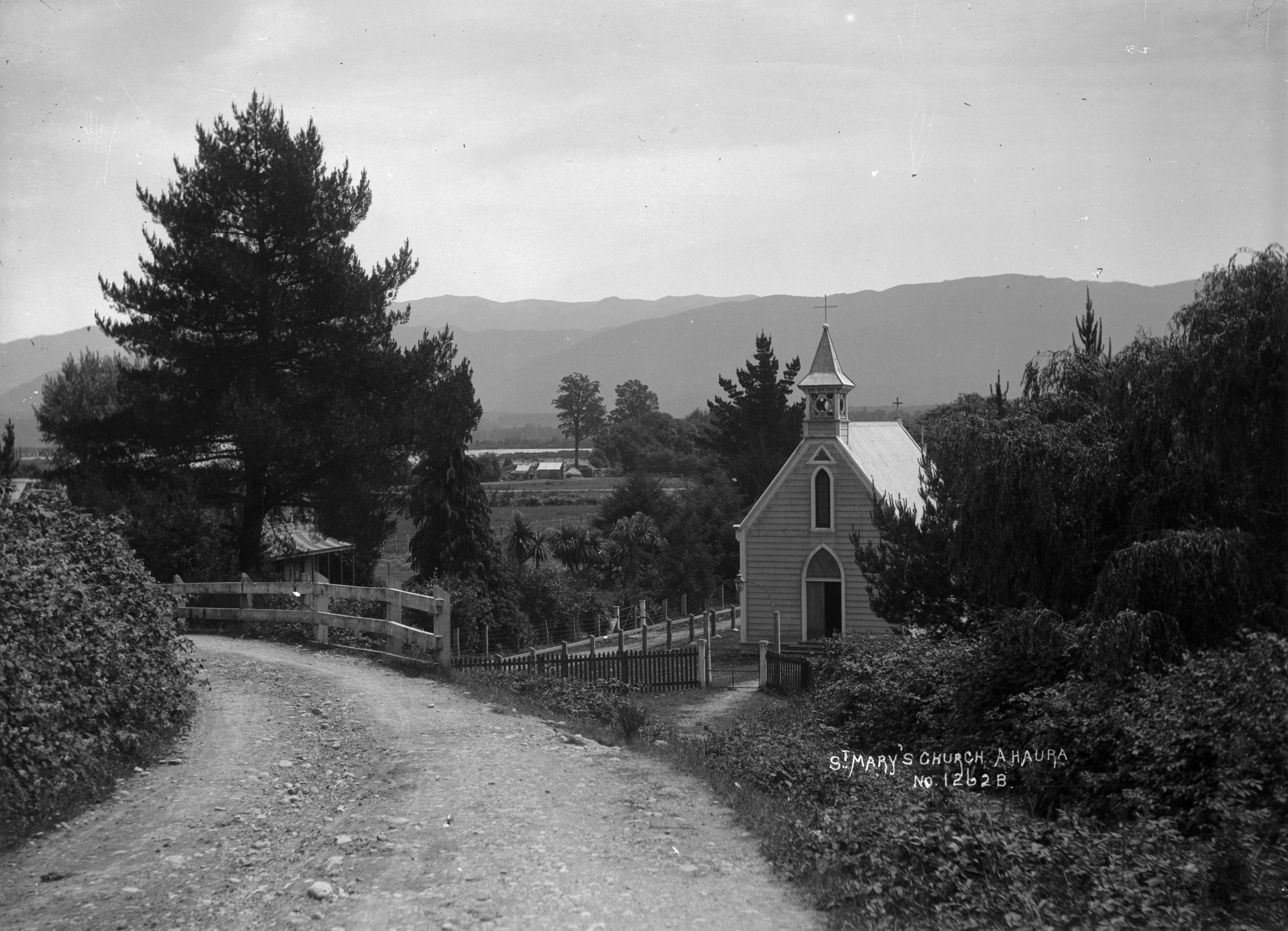 Scene at Ahaura, with St Mary's Catholic Church, between 1900-1930 Reference Number: 1/2-000111-G Photographer: William Archer Price Dry plate glass negative Price Collection, Photographic Archive, Alexander Turnbull Library Find out more about this image from the Alexander Turnbull Library.